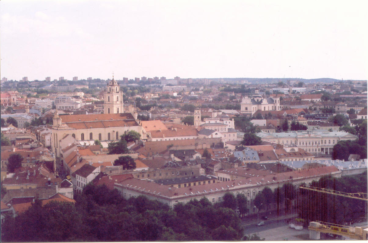 Vilnius Old Town.